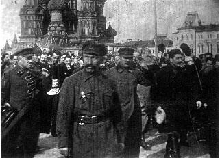 Joseph Stalin and Kliment Voroshilov with delegates of the 13th Congress of the Russian Communist Party (Bolsheviks).